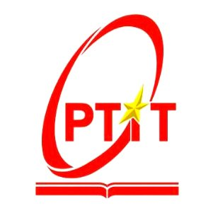 PTIT is stand for the Posts & Telecommunications Institute of Technology and it also abbreviate for Post (P), Telecom (T) and Information Technology (IT) - which are 3 areas of research and training of PTIT.